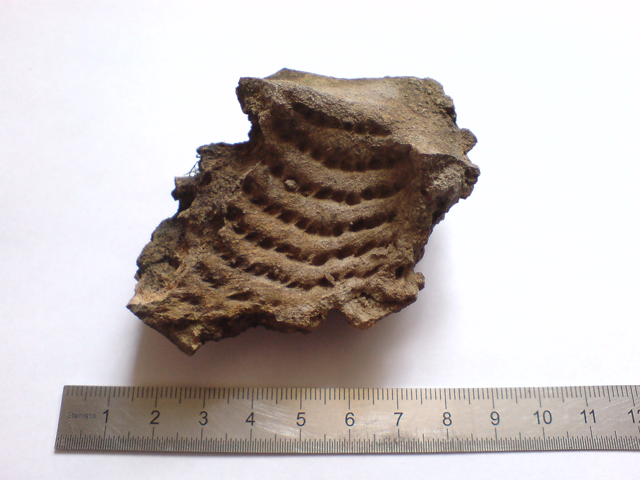 This fossil has been found in the Ognon river between Villersexel and Bonnal.